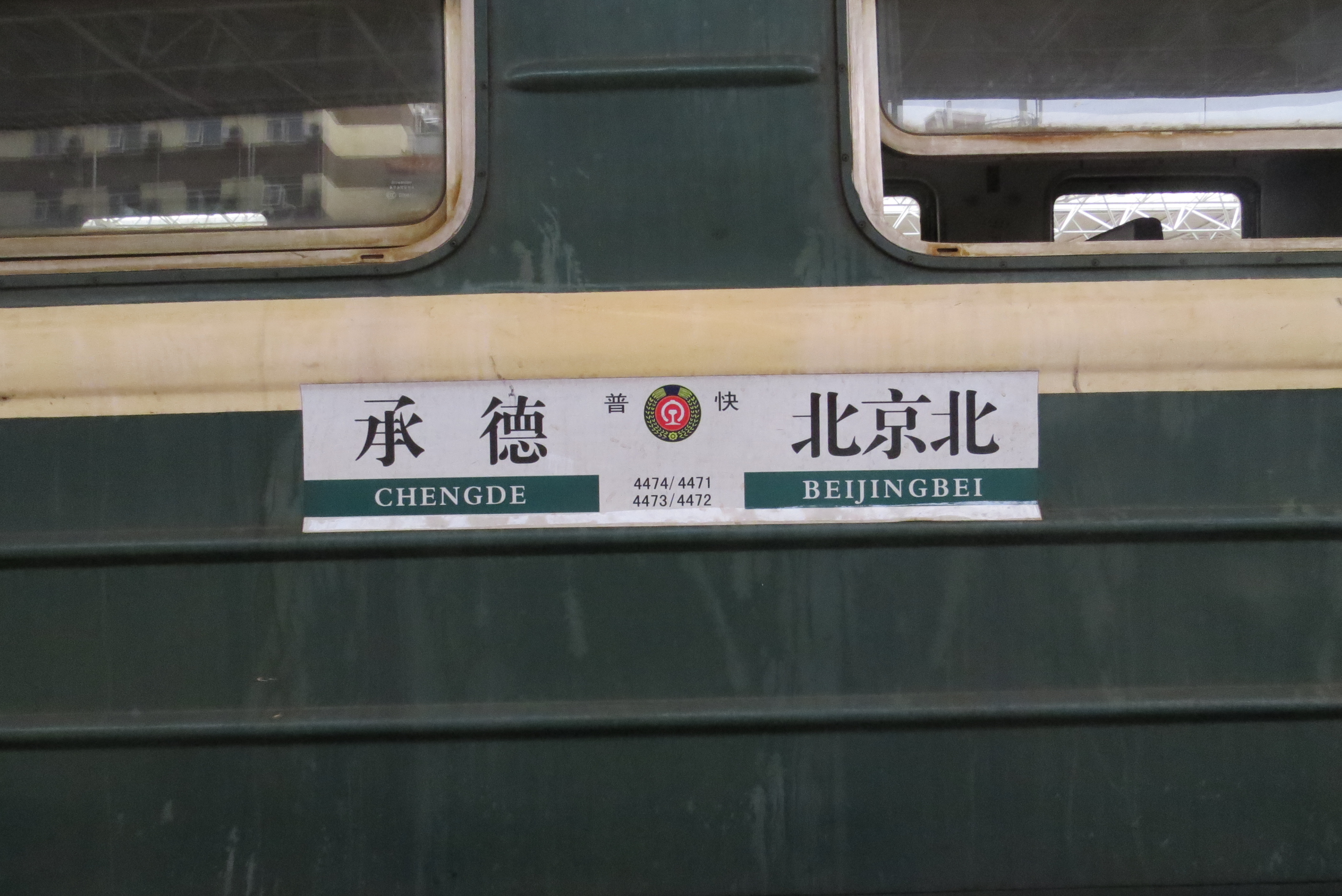 A classic on Jingbao Line, from Beijing North to Chengde. It would shrink to Longhua since 1 July 2015.